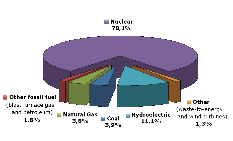 Sources of electricity in France in 2006. Made by myself in Excel based on [1].